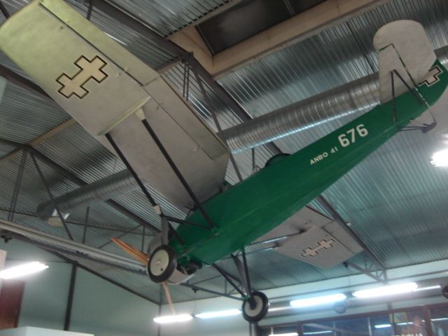 Anbo-41 replica at Kaunas airport.